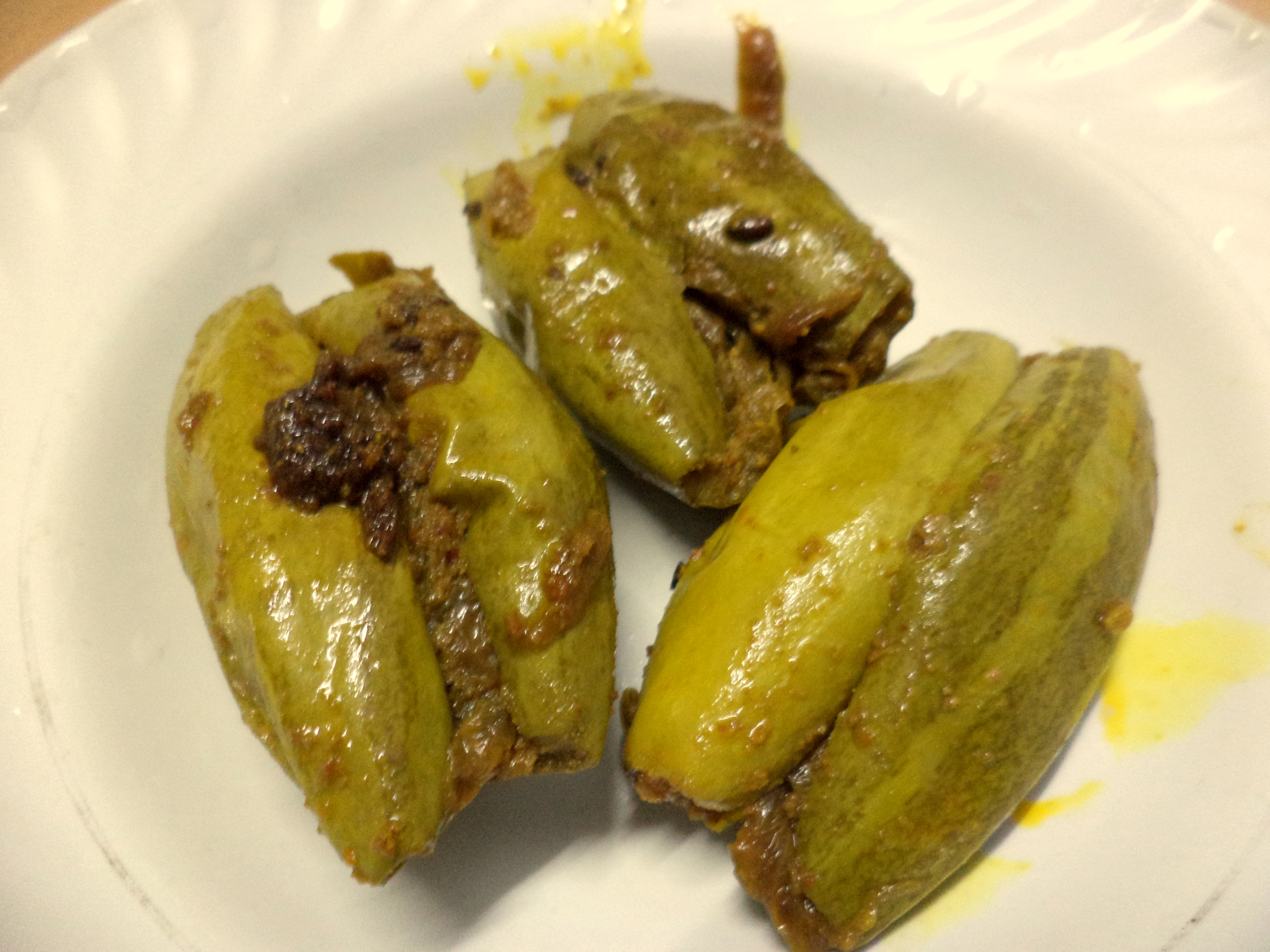 Stuffed parval (pointed gourd)